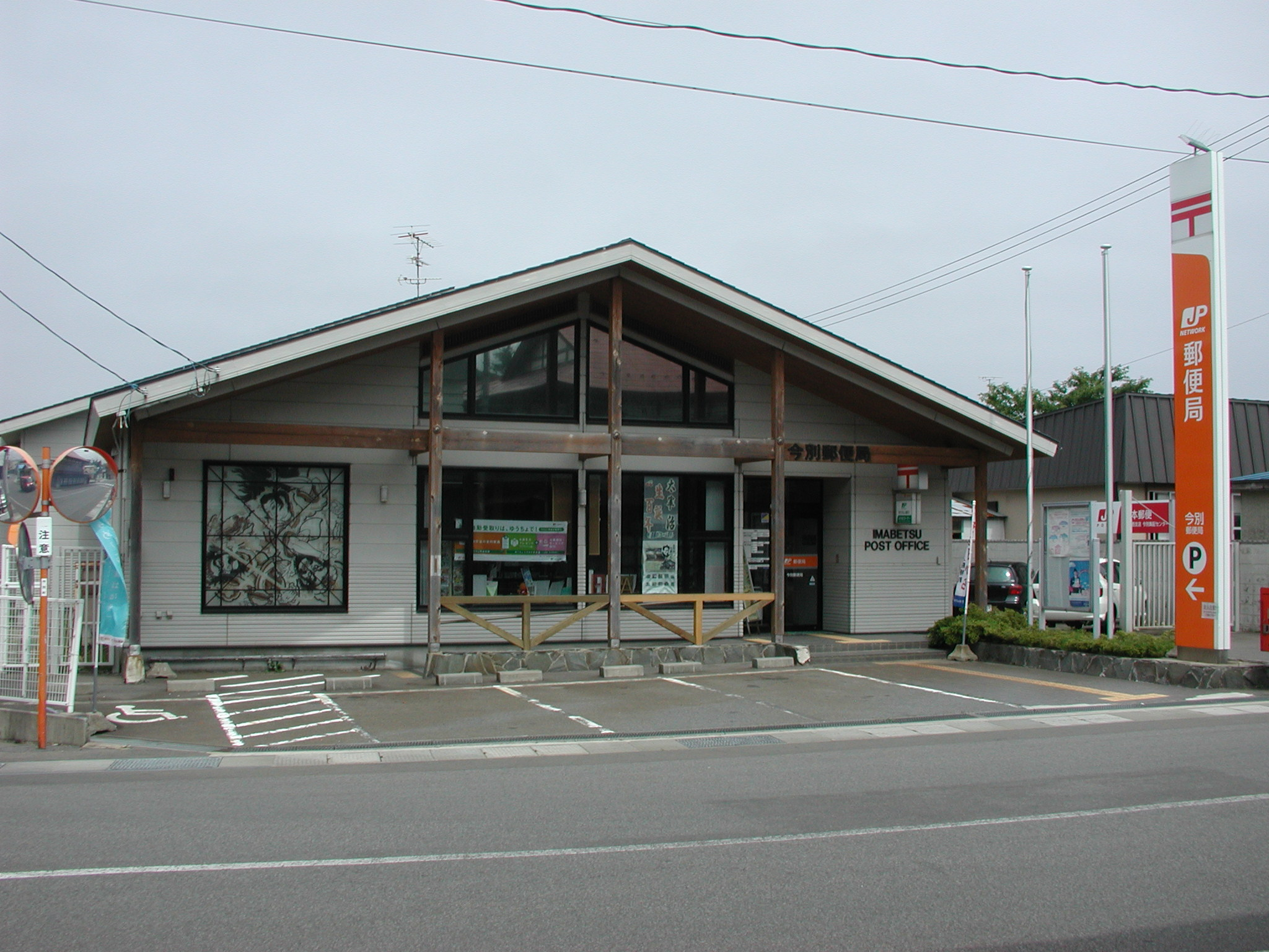 Japan Post Network Co.,Ltd. Imabetsu Post Office Japan Post Service Co., Ltd. Aomori-Nishi Branch Imabetsu Delivery Center